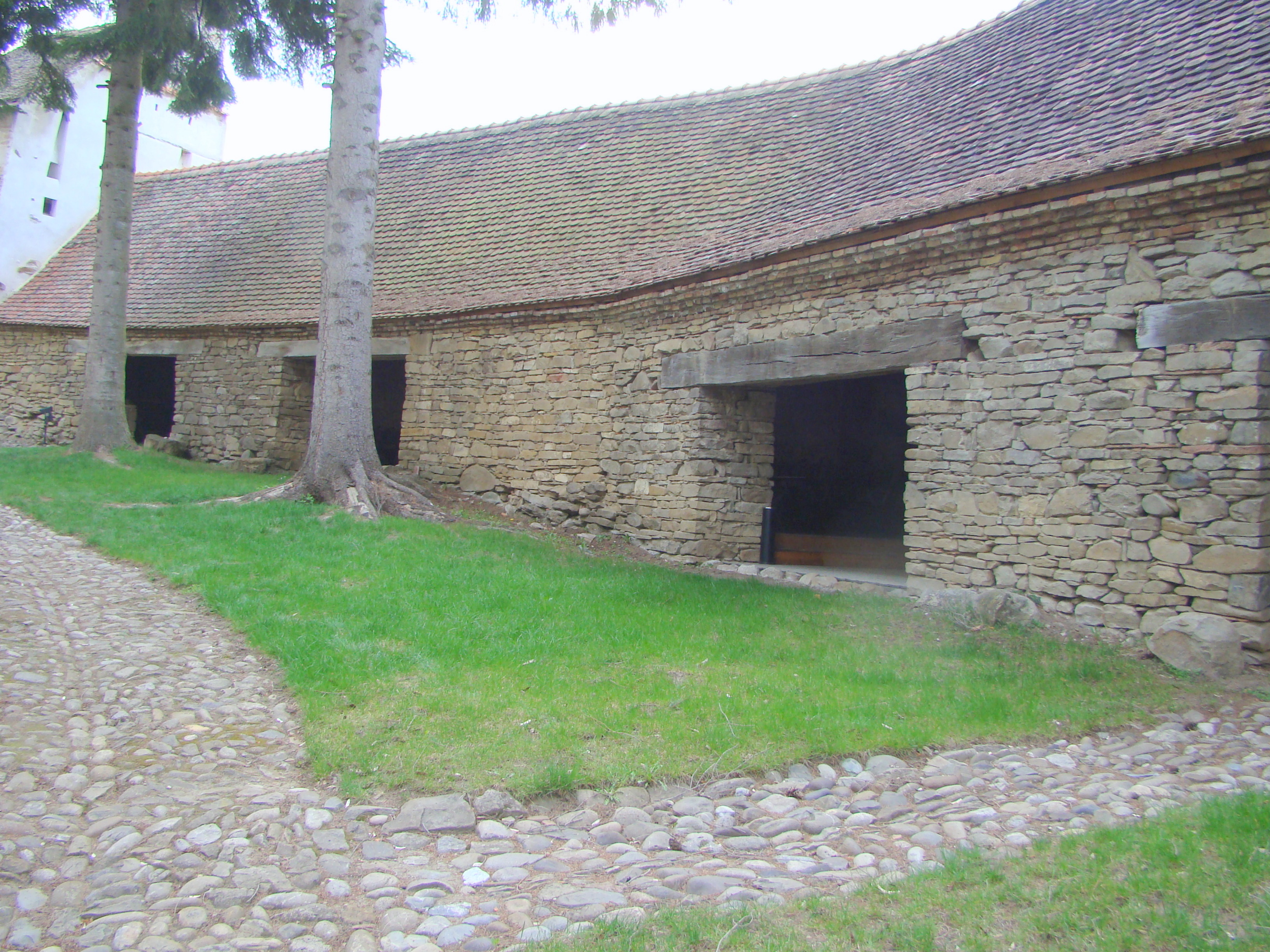 Fortified church in Criț, Brașov county, Romania